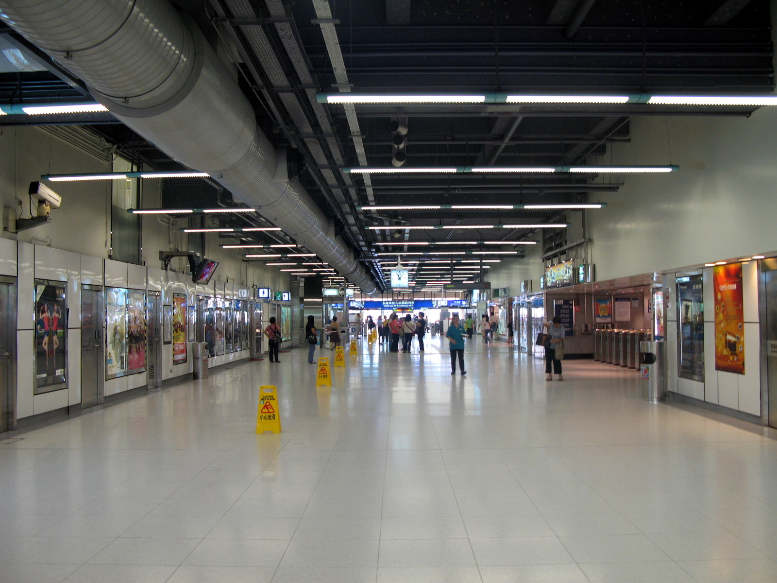 Shatin KCR Station